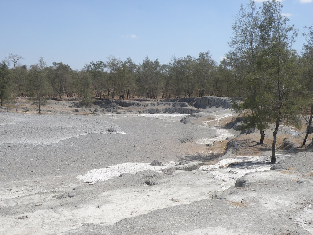 Casuarina trees at mud volcano landscape at Oesilo, Oecusse District, Timor-Leste